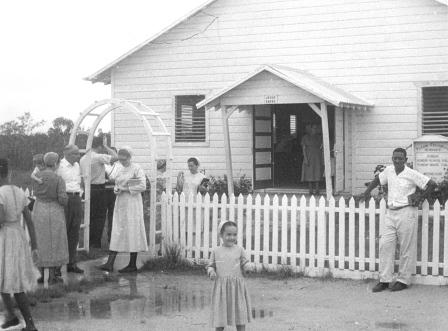 Caption: The Mennonite Church at Hattieville after a Sunday service in British Honduras. circa 1964. Citation: Mennonite Board of Missions Photograph Collection. Mission to British Honduras 1964-65. IV-10-7.2 Box 2 Folder 25, Photo #07. Mennonite Church USA Archives - Goshen. Goshen, Indiana